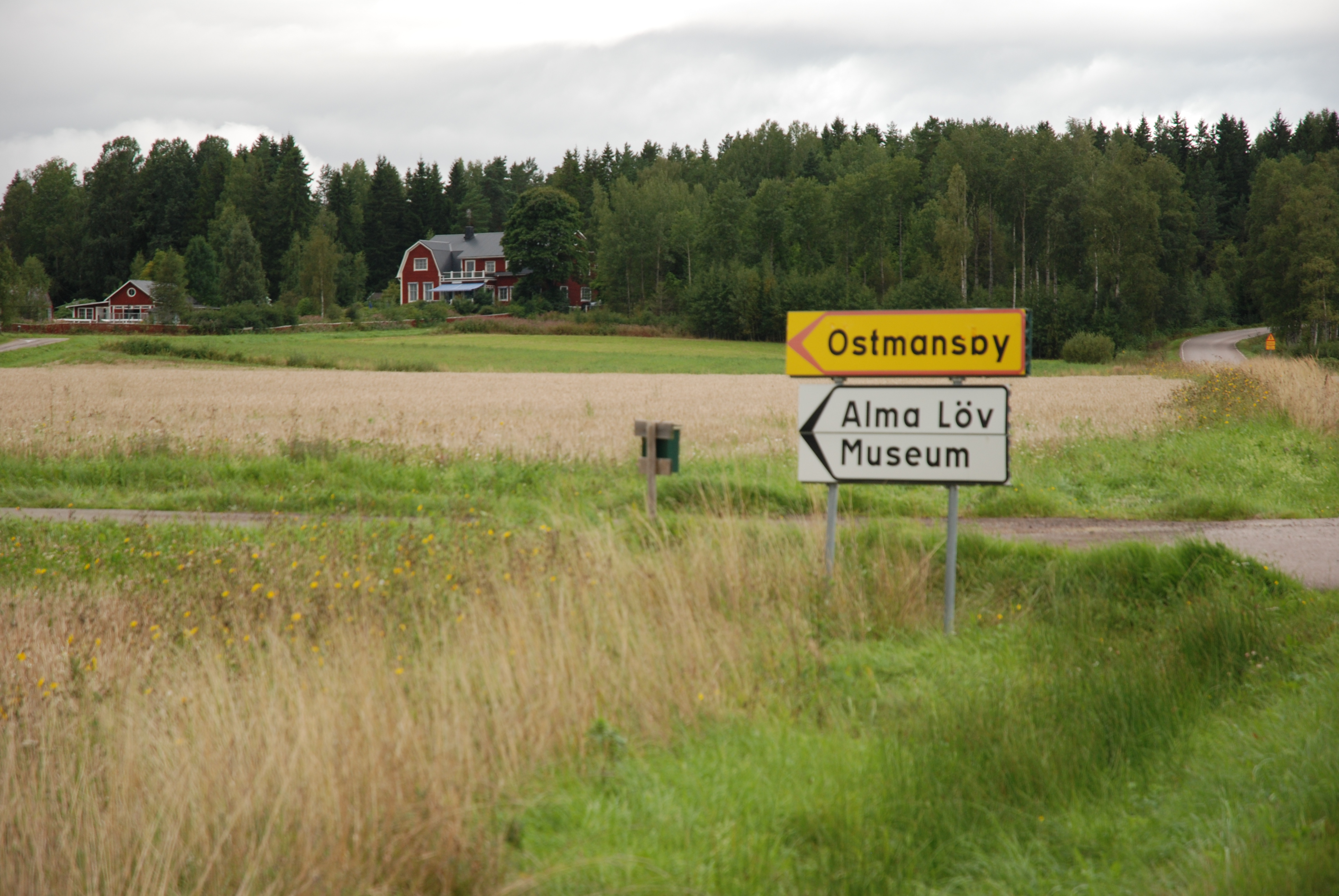 Alma Löv Museum, Art project 1998-2010 in Smedsby Old School in Östra Ämtevik in Värmland, Sweden